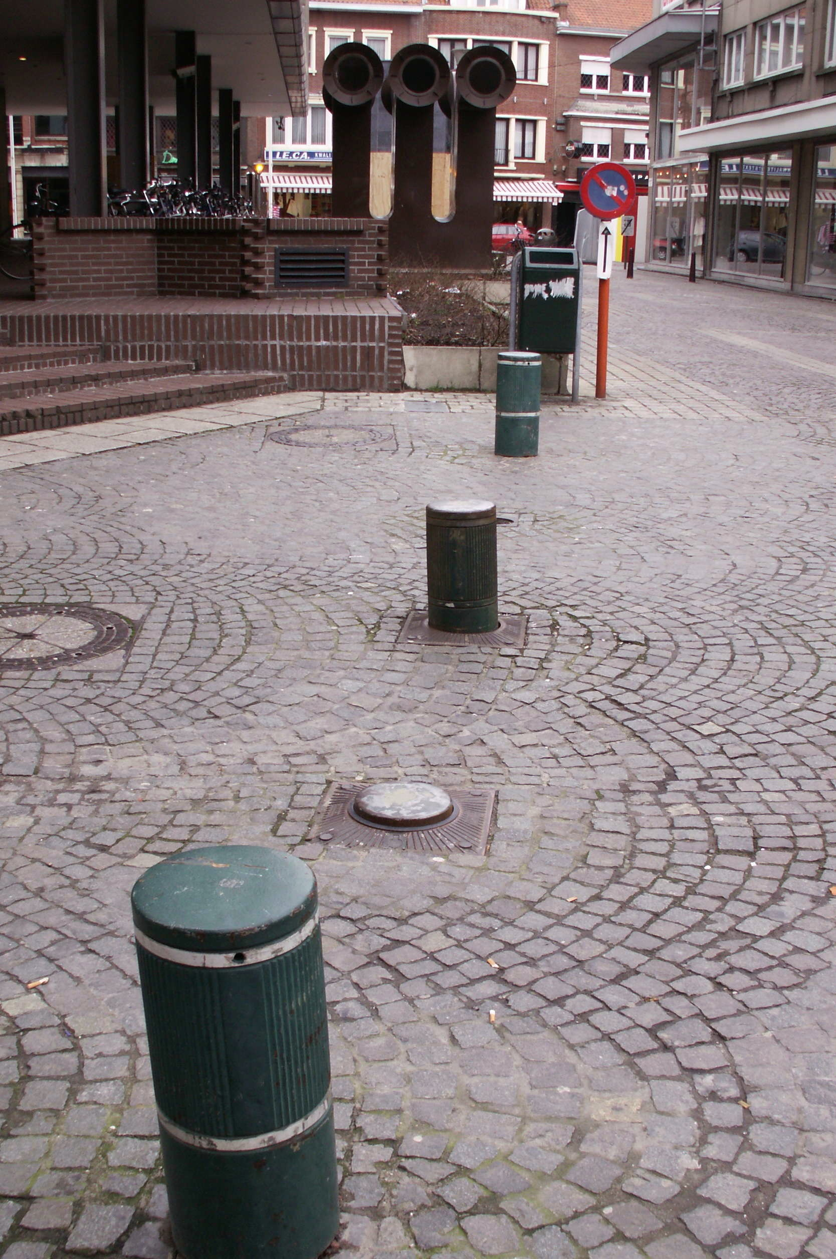 A retractable traffic bollard